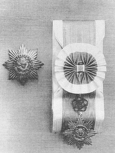 Grand Cordon of the Order of the Dragon Light